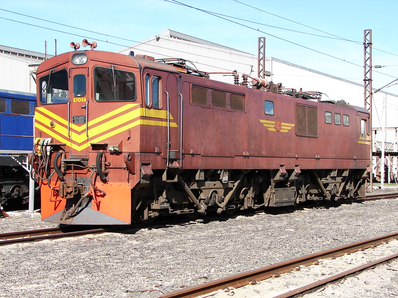 SAR Class 7E E7058Location: Swartkops, Port Elizabeth, Eastern Cape